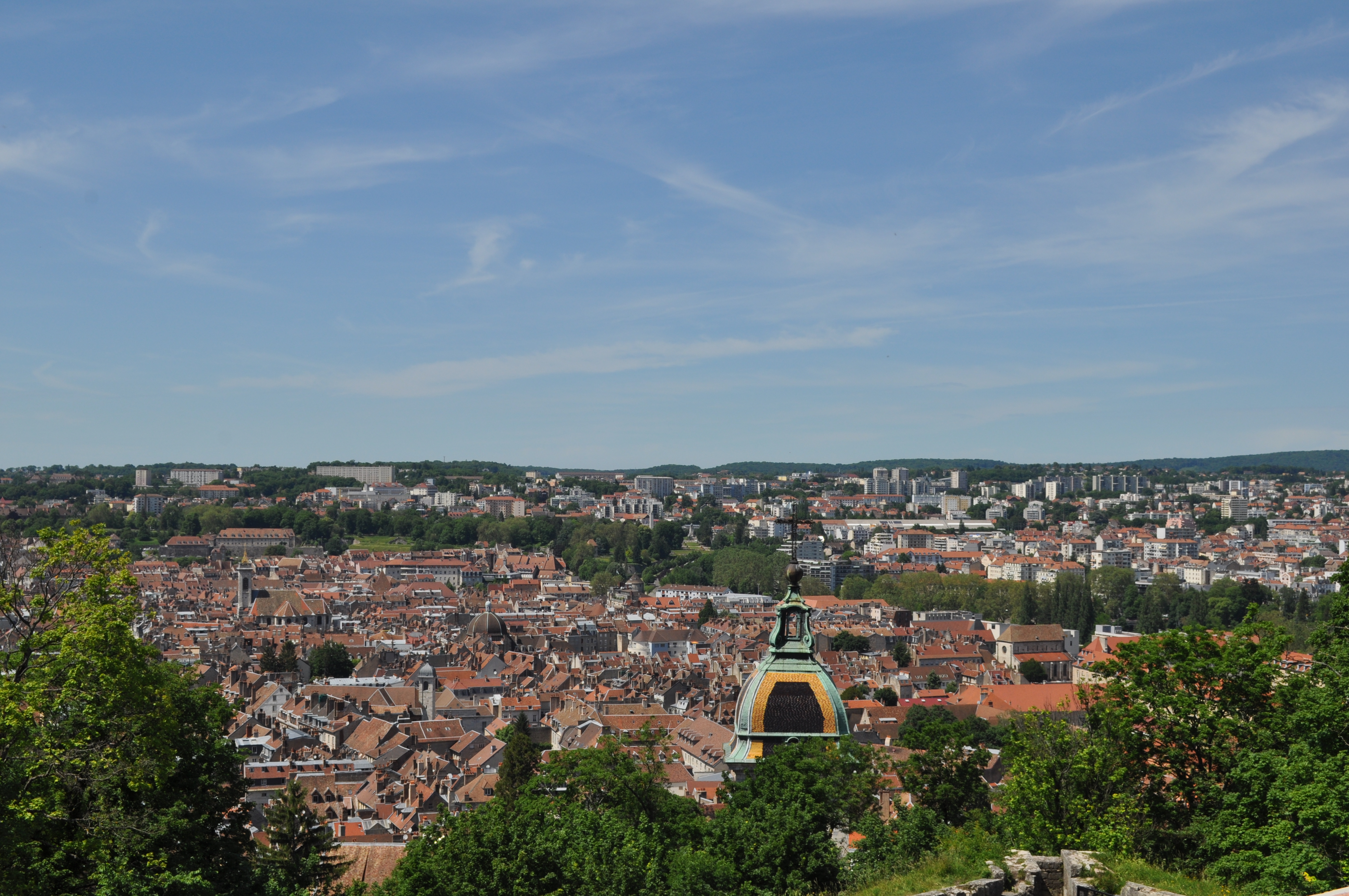 View of Besançon from its Citadel (Franche-Comté)